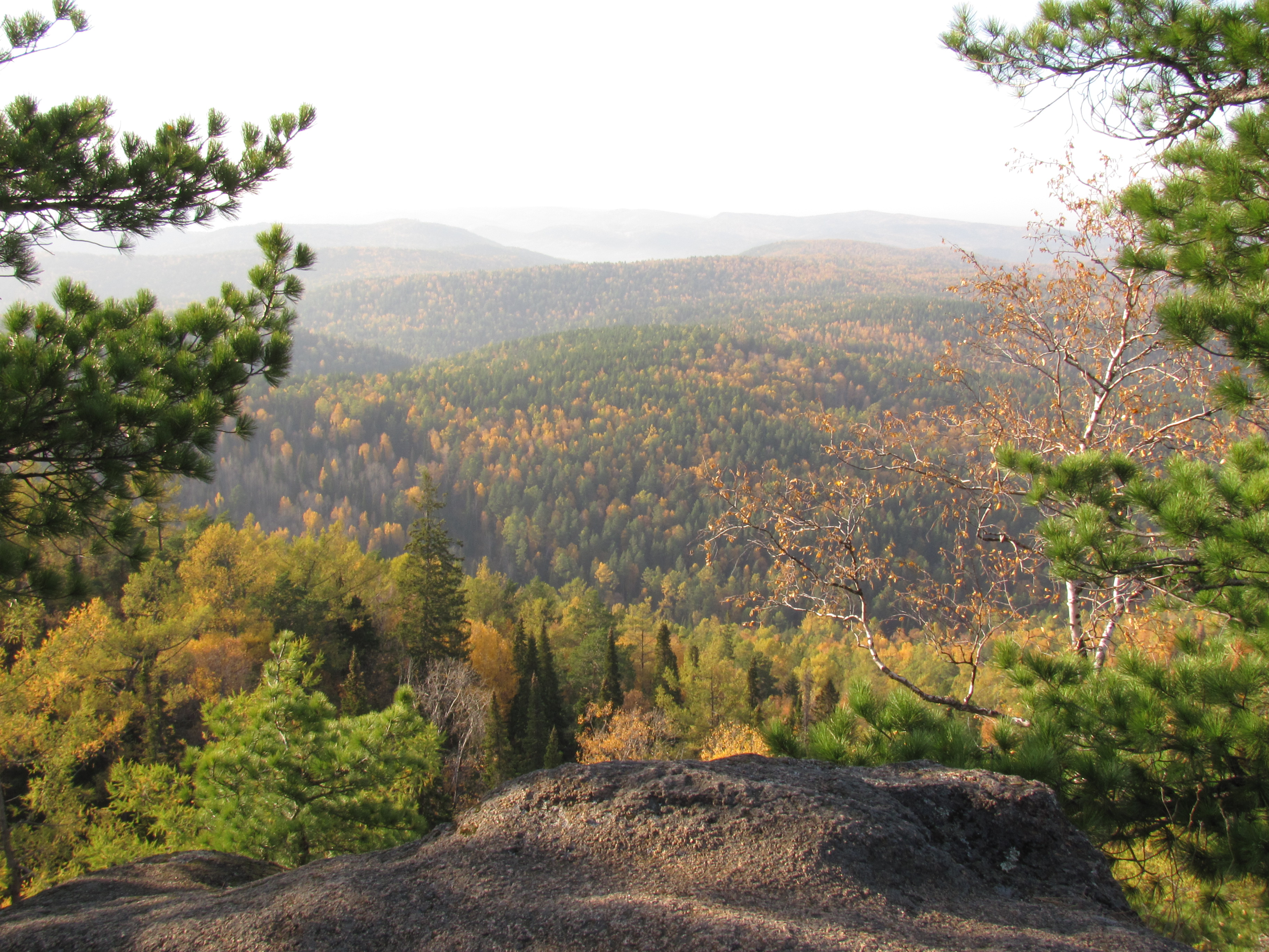 View from the rock "Ded" in Stolby Nature Reserve, Krasnoyarsk, Russia